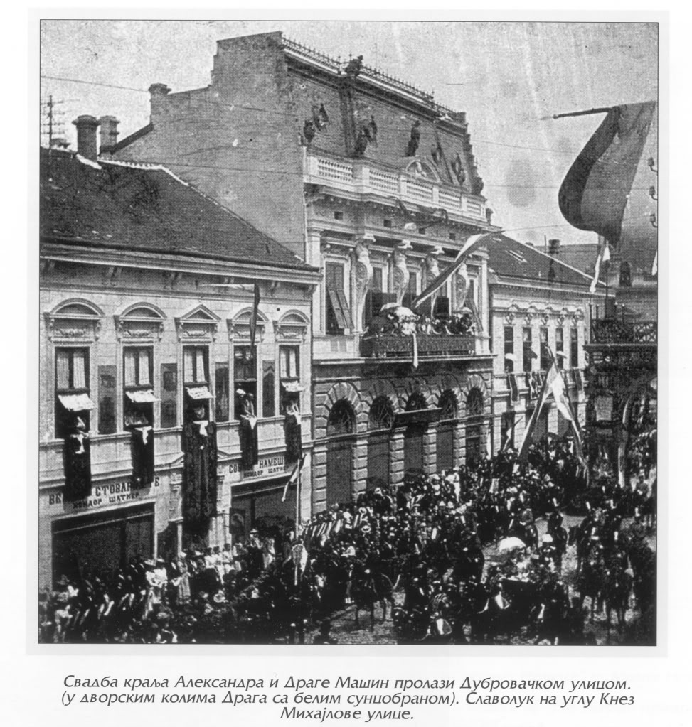 The wedding of King Aleksandar and Queen Draga Obrenović